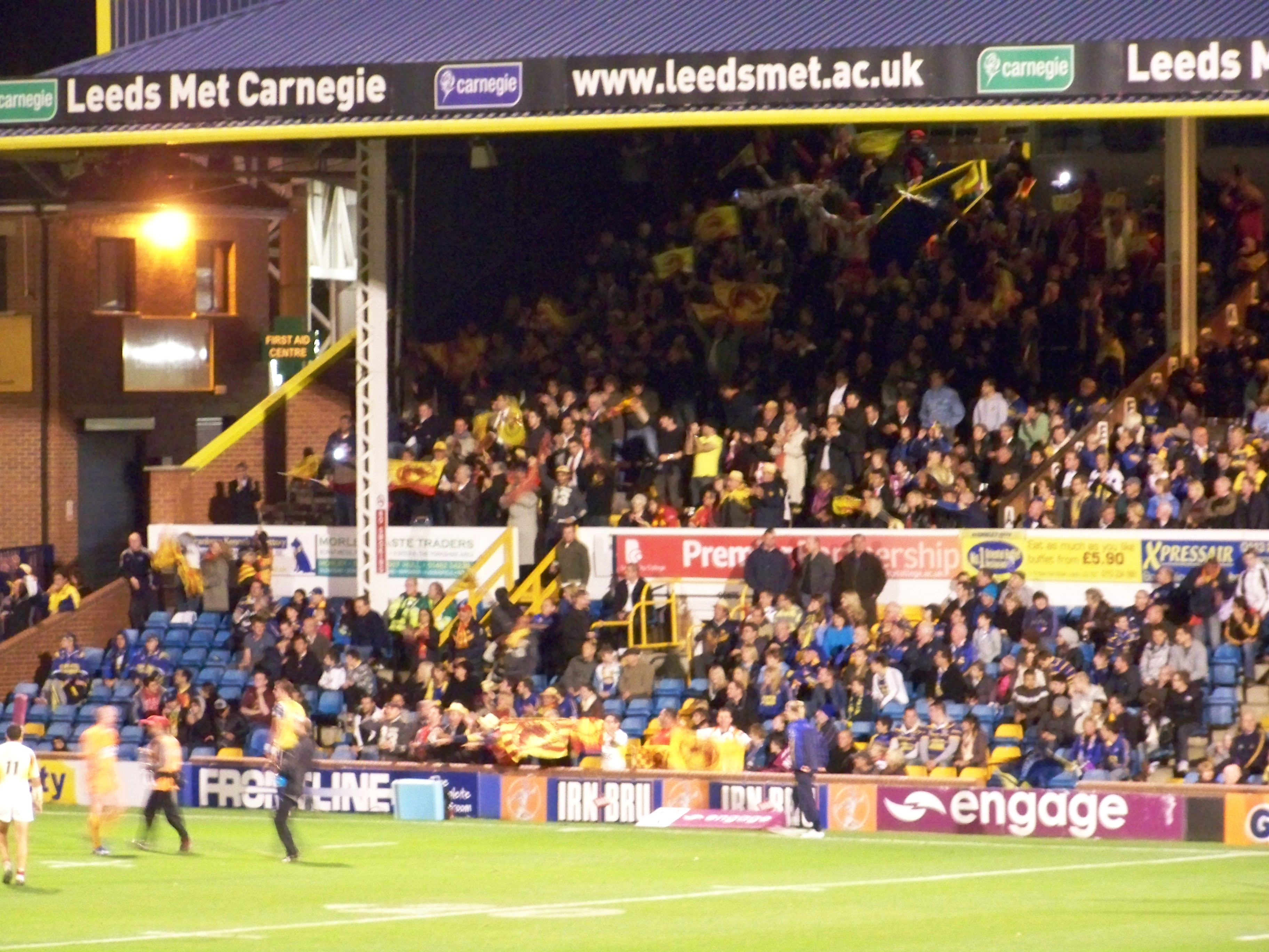 Catalan Dragon fans occupying the Western end of the North Stand at Headingley Stadium during their defeat to the Leeds Rhinos in the 2009 Superleague play-off semi finals. Taken on Friday 2nd October 2009.